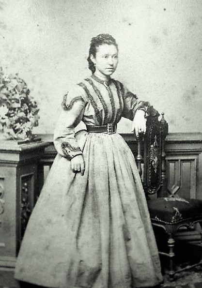 Clarisse Prückler (1833-1907), Pasta Factory Owner. Her husband was Joseph Topits (1824-1876), the founder of the first Pasta Factory of Hungary. Pest, Hungary.